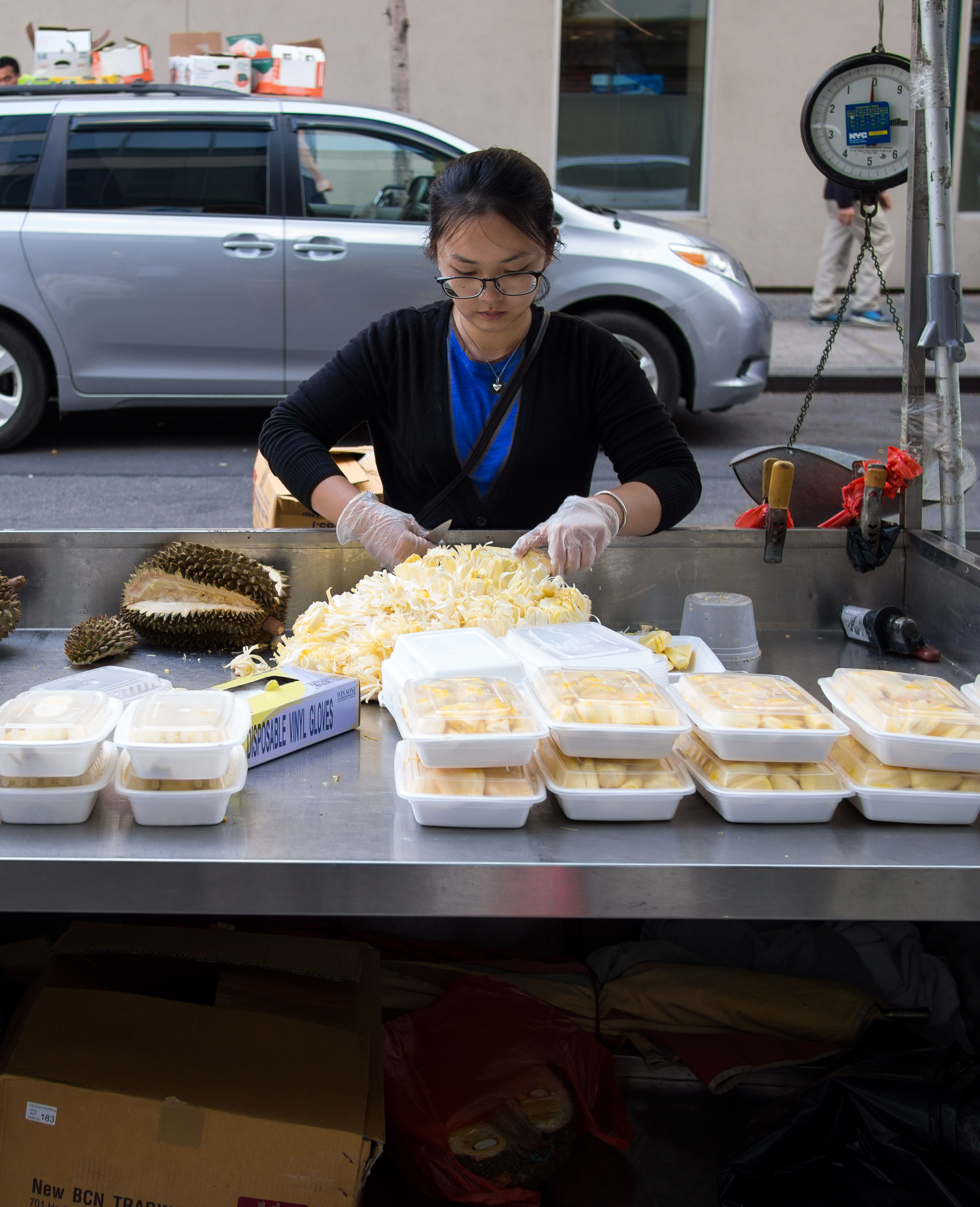 Durian and jackfruit disassembling a jackfruit in Manhattan's Chinatown. Plastic containers with durian and jackfruit on the table (and a pile of jackfruit rags).